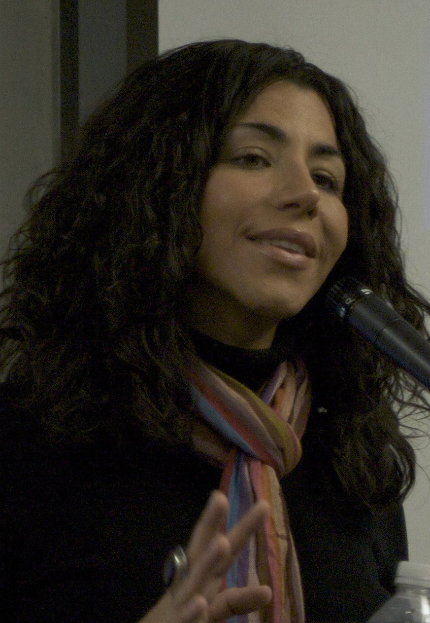 Virginia Montanez in 2009